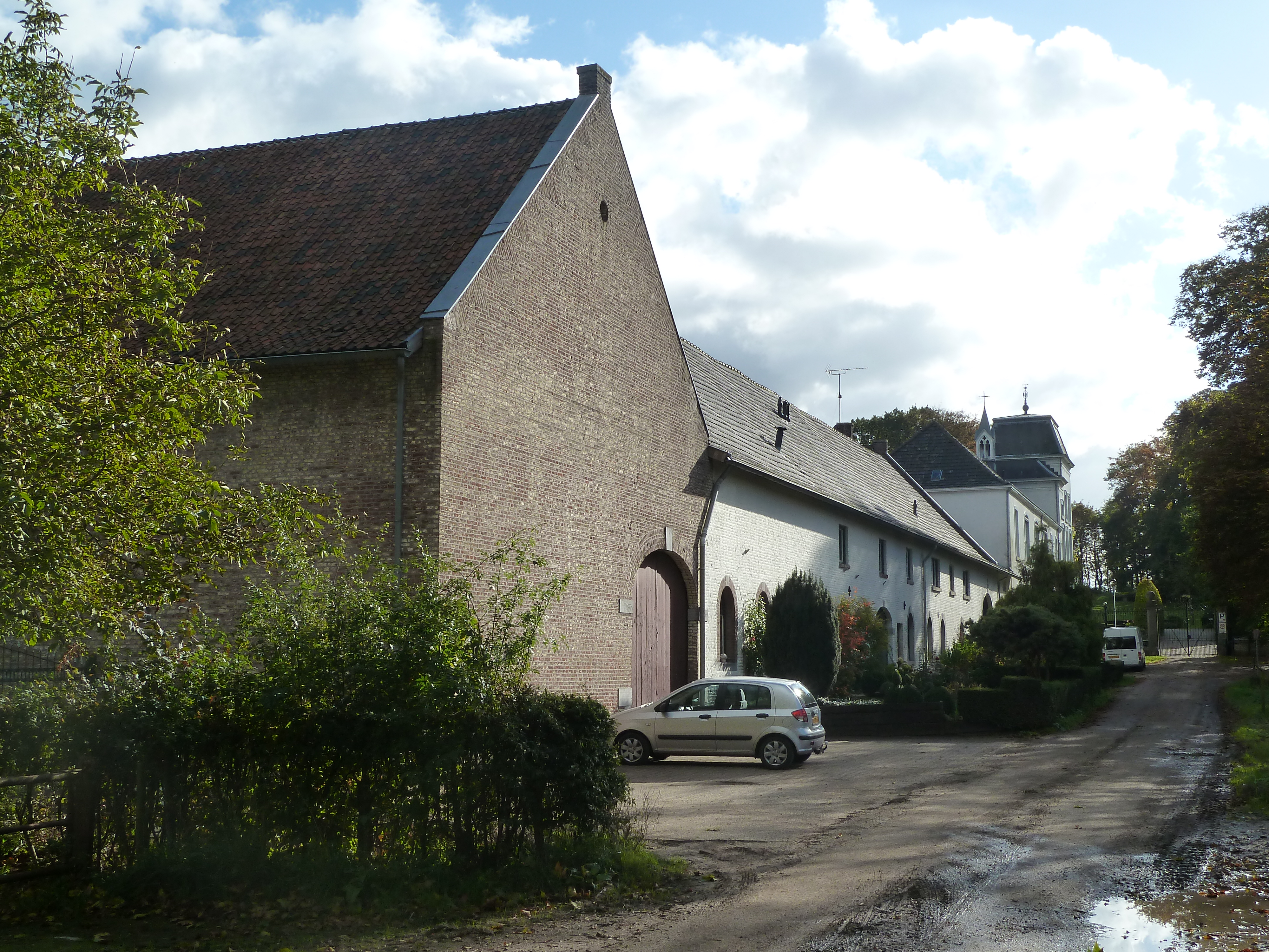 Blankenberg 3, Cadier en Keer, Limburg, the Netherlands